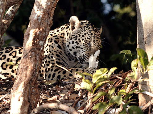 Pantanal do Norte, Brazil. On the way down the tree the jaguar succeded in getting a meal. The cat has taken a small bird. Photo by: Jan Fleischmann +46 70 590 17 74